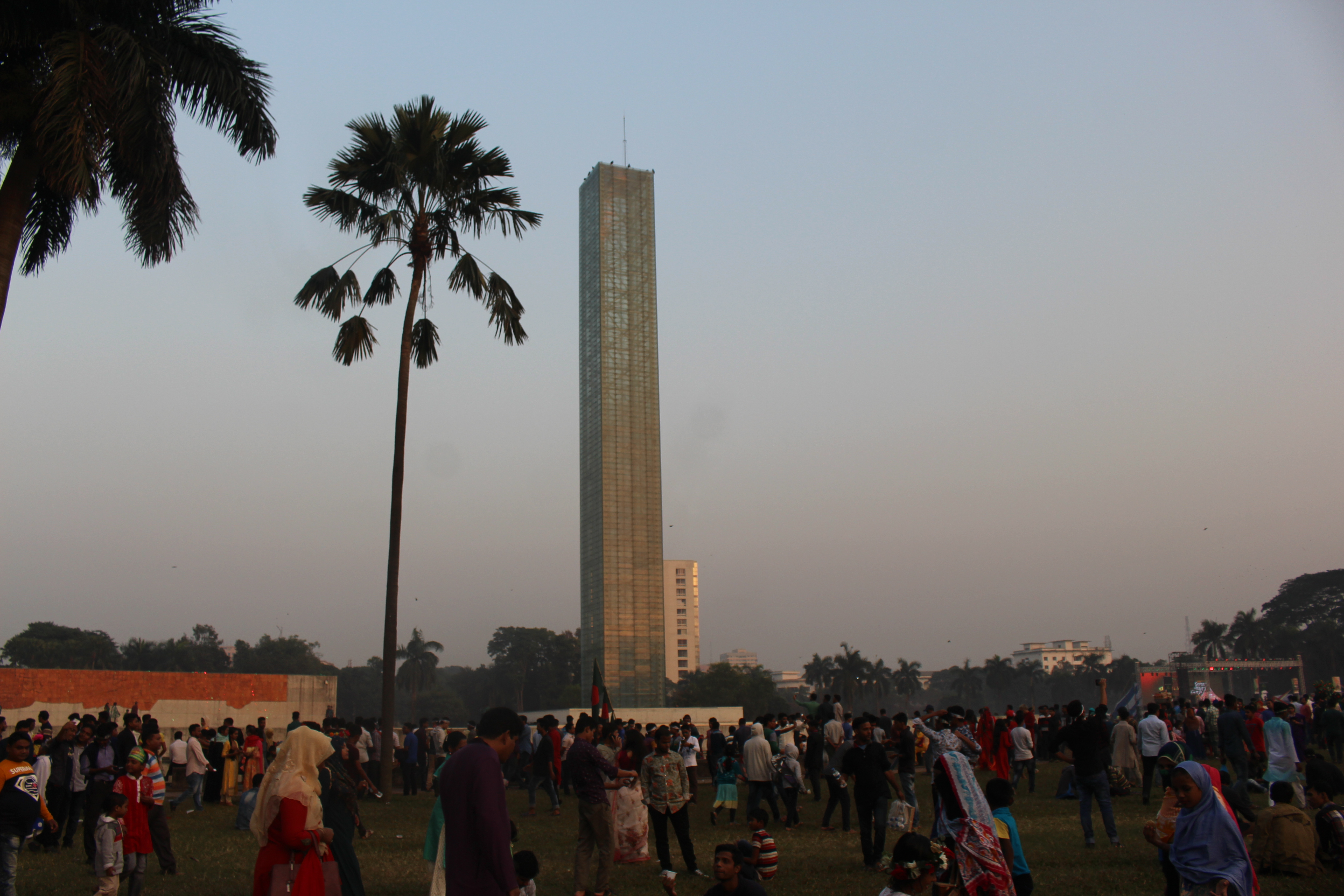 Freedom stagnation